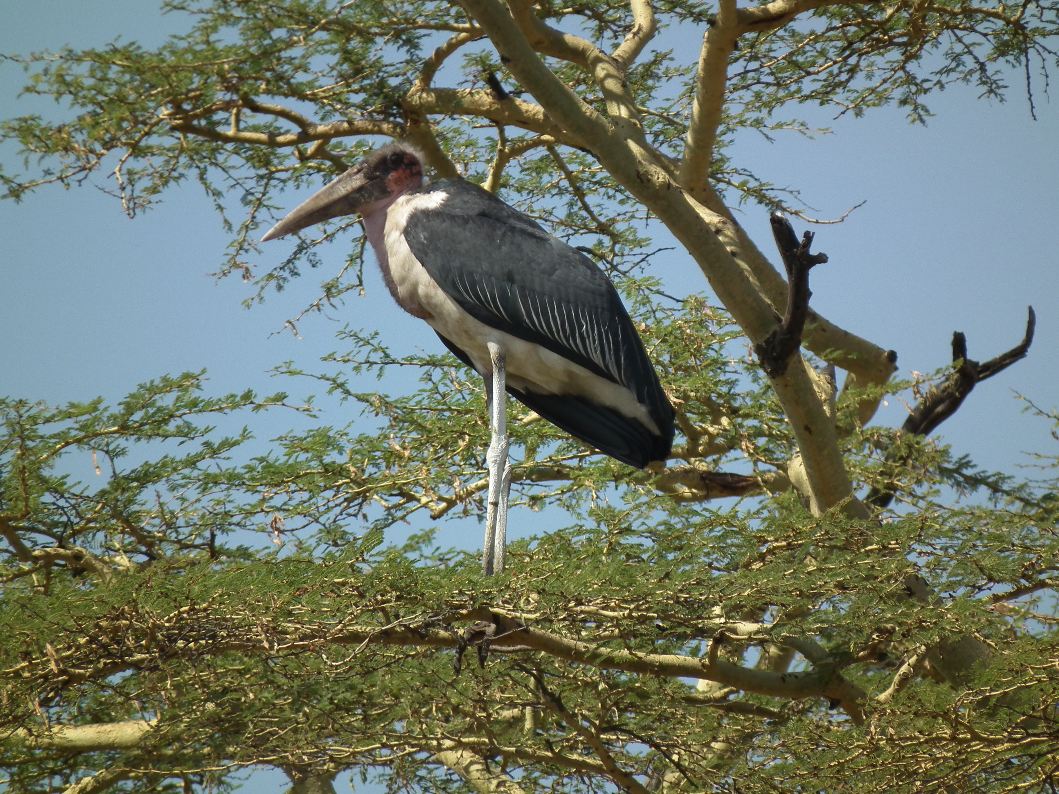 Marabou Stork Leptoptilos crumeniferus in Tanzania